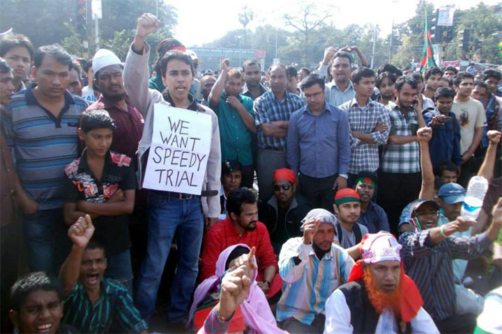 Protest against court's delay